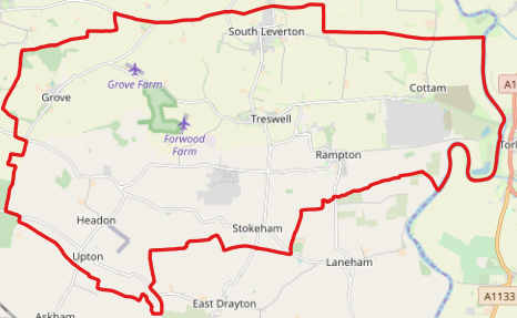 Map of the Rampton ward of Bassetlaw. This map may be incomplete, and may contain errors. Don't rely solely on it for navigation.